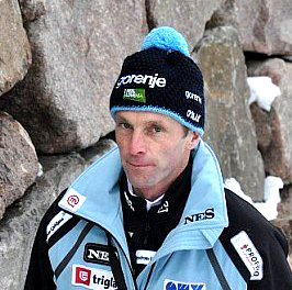 Matjaž Zupan (1968), ski jumper and ski jumping coach from Slovenia (cropped from File:Matjaž Zupan Oslo 2011 (team, normal hill) 2.jpg